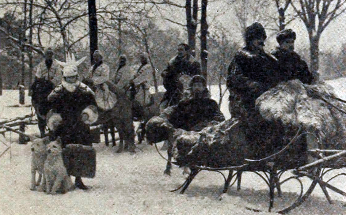 Illustration of an article in The Moving Picture World for The Crucial Test (1916).